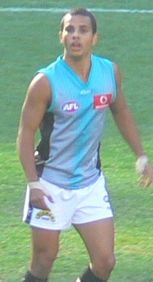 Danyle Pearce playing for Port Adelaide during the 2007 AFL Season